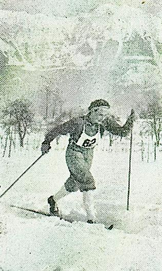 Angela Kordež (1926-), Slovene cross country skier